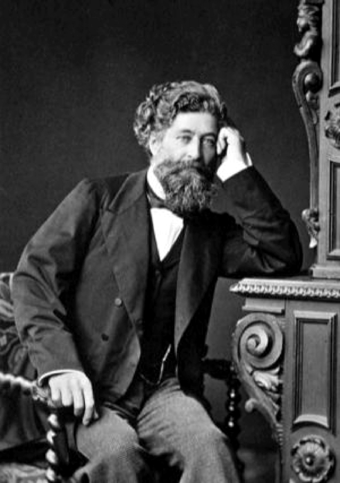 Photograph of Henri Cernuschi (1821–1896), Italian politician, French banker, economist and Asian art collector.